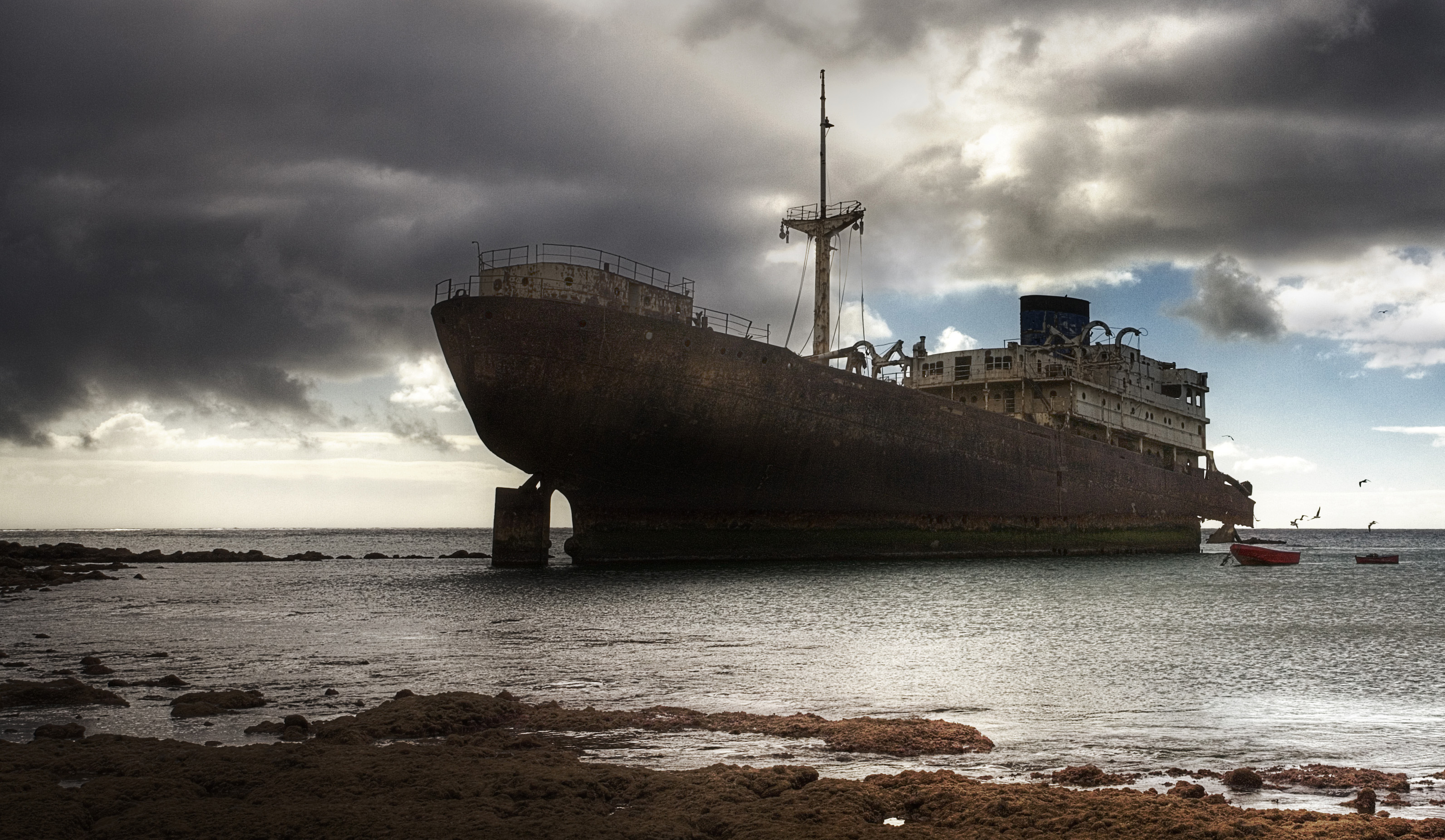 Wreck of Temple Hall close to Arrecife, Lanzarote